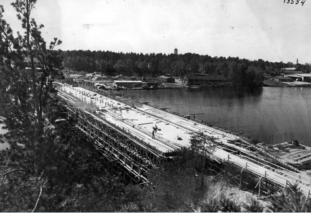 Oulujoki bridges under construction in Oulu, Finland, in July 1964.